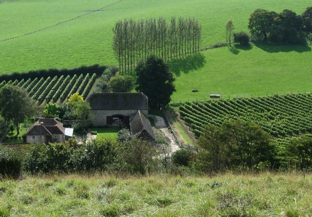 Breaky Bottom Vineyards View of the vineyards on descent from path. Award winning wine from this sheltered valley.